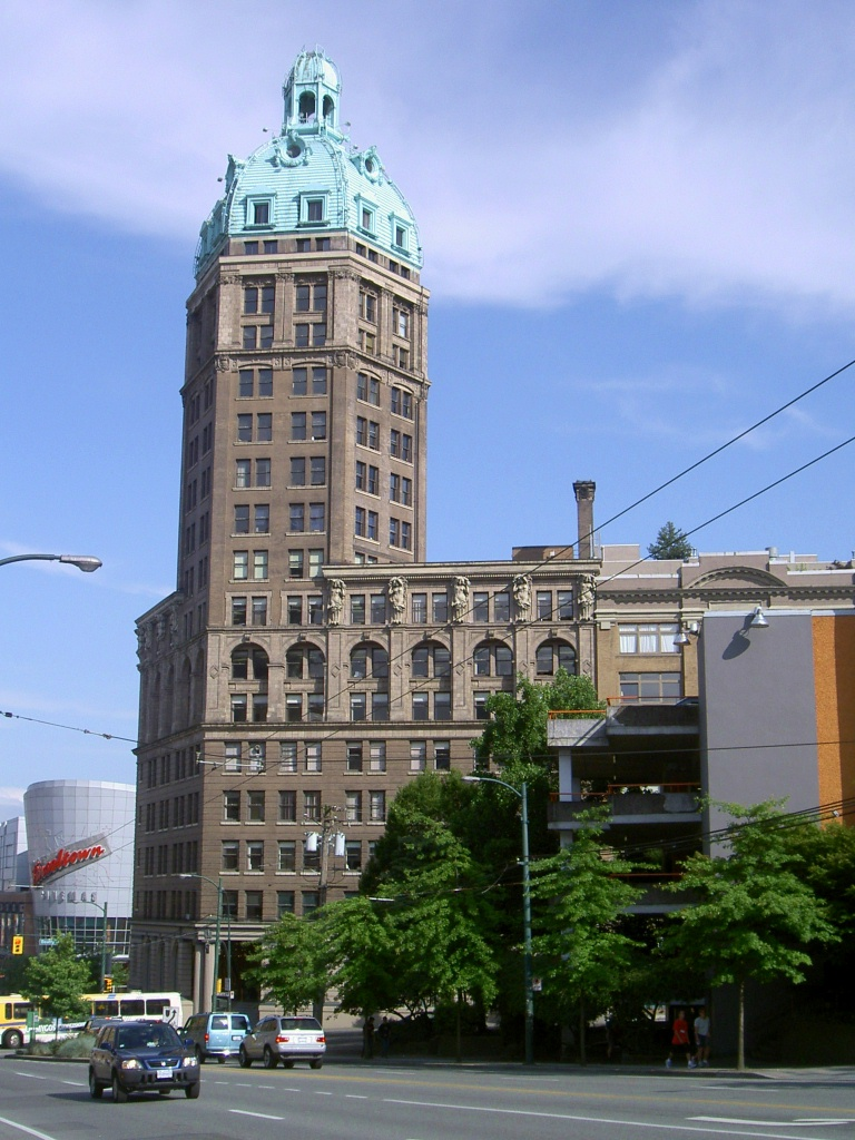 The Sun Tower in Vancouver. Photographed by Zhatt on June 28, 2005.